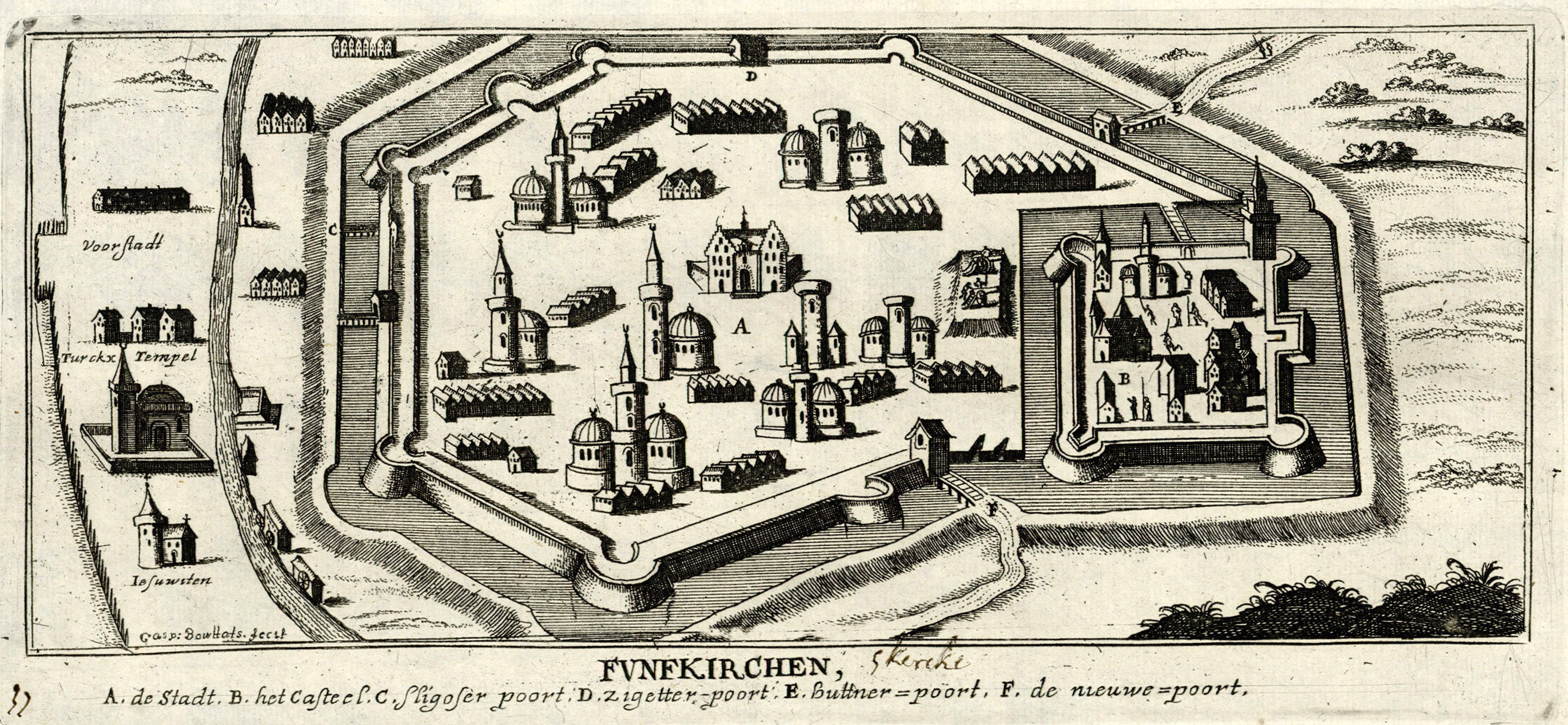 Pécs (Fünfkirchen), by Gaspar Bouttats, ca 1690